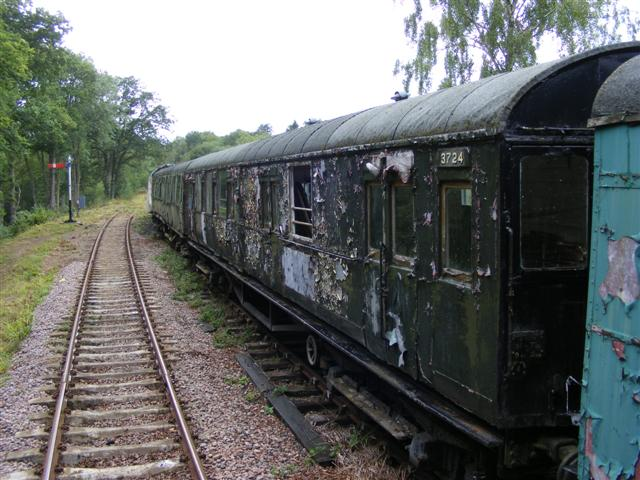 3724 on the Ardingly spur